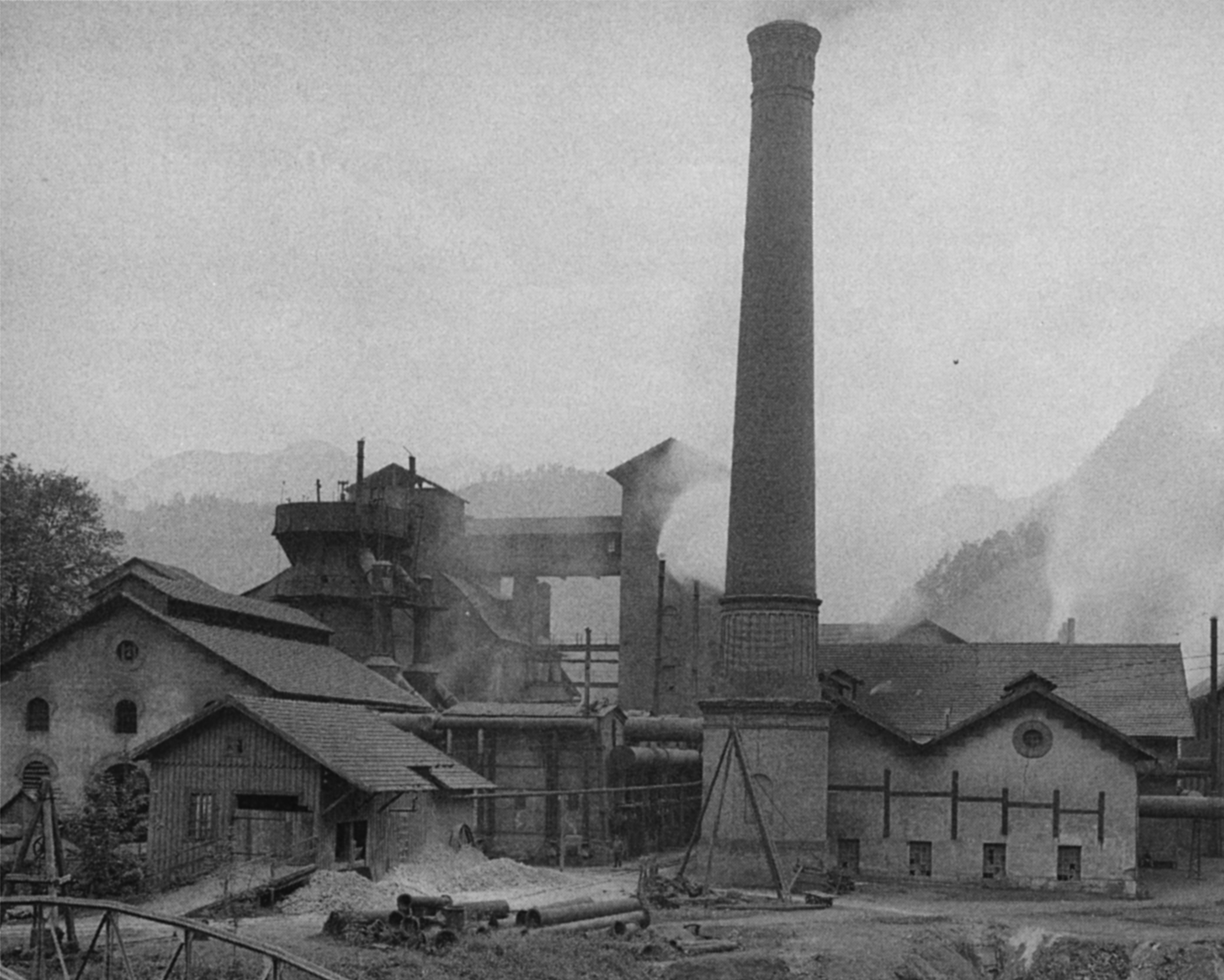 Petschar, Friedlmeier, Steiermark in alten Fotografien, Ueberreuther Verlag Wien. Scanprojekt Community Projektbudget 2012 This scan or this PDF-file was created within the GLAM-project Bookscanning, supported by Wikimedia Germany and Wikimedia Austria as a part of the community-project to capture books, documents and pictures which are not eligible to copyright or for which the copyright has expired. This document describes or depicts an object which is located in Austria today. Texts are written German language. Send requests for uncompressed scans to Hubertl. This work is in the public domain in its country of origin and other countries and areas where the copyright term is the author's life plus 100 years or less. You must also include a United States public domain tag to indicate why this work is in the public domain in the United States. This file has been identified as being free of known restrictions under copyright law, including all related and neighboring rights.